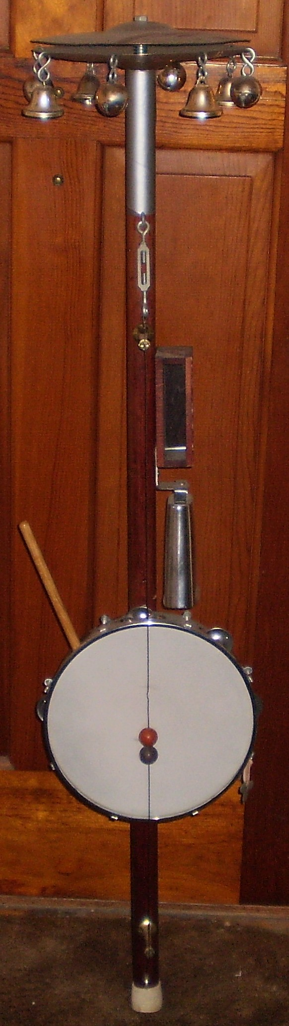 A boom-ba